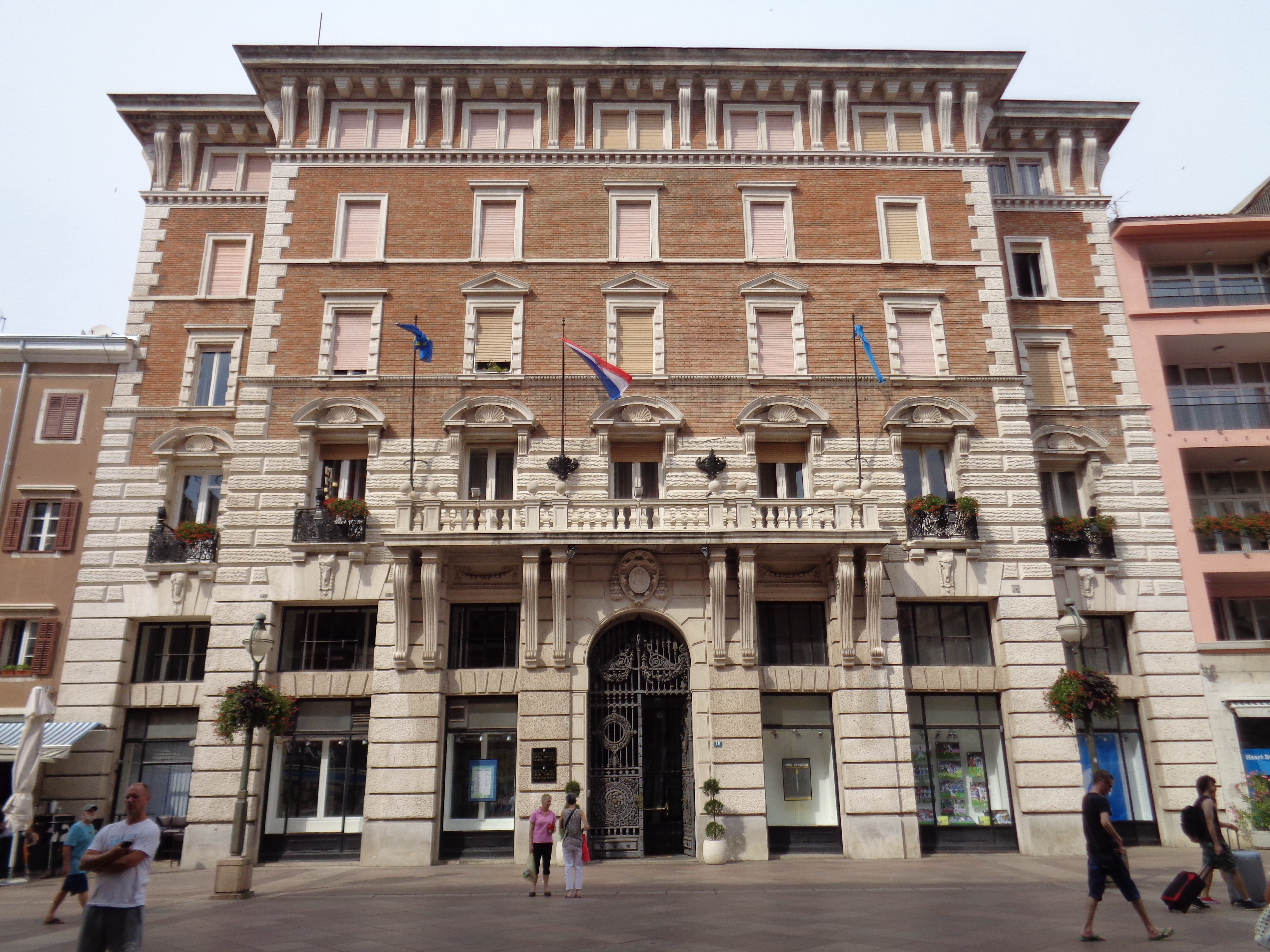 Rijeka Town Hall building, Croatia